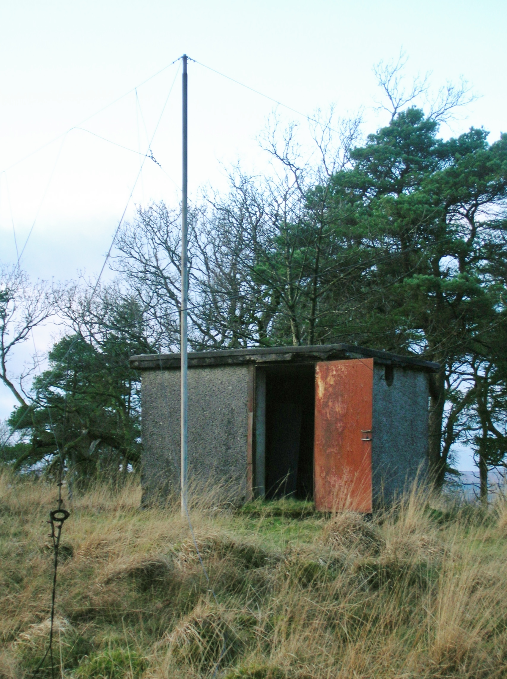 Radio transmitter installation on Brown Muir (Brimmer) Hill, Beith, North Ayrshire, Scotland.